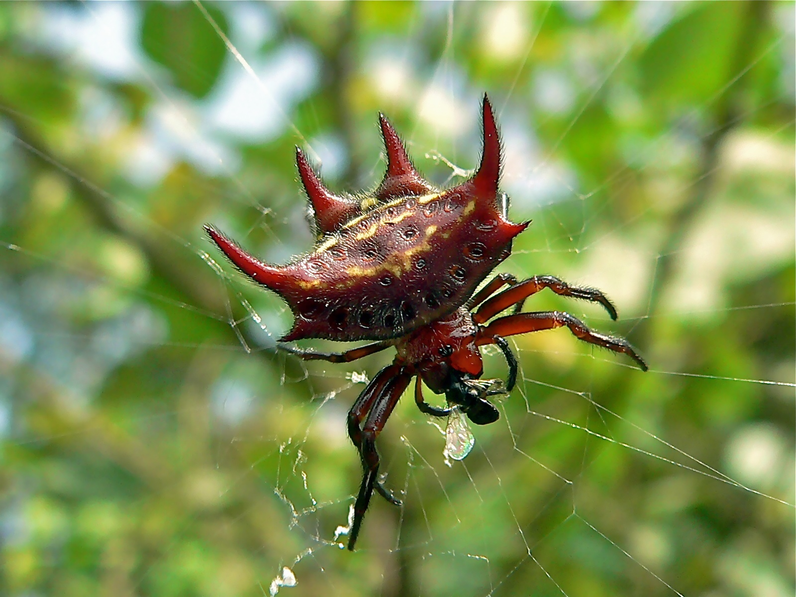 Limbe, CAMEROON